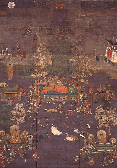 Eight-Phase Nirvana, Kaizenji, Iida, Nagano, Japan